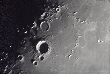 Bullialdus crater in the Moon. It is the biggest one in the picture. The image is the result of stacking a handheld video with Registax 5.1. A Celestron NexStar 5SE Telescope was all the setup.